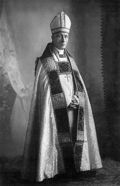 Welbore Macarthy, rector of Stoke Rochford 1910-1918, later Bishop of Grantham